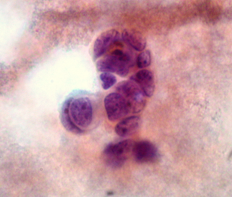 Small Cell Carcinoma, Pleural Fluid Cytology 63-year-old woman with smoking history presented with opacification of one lung lobe, markedly enlarged thoracic lymph nodes, and radiographic evidence of pleural and systemic metastases. Pap stain of Cytospin preparations showed several groups like the one pictured here: small dark cells with prominent nuclear molding, finely granular chromatin, inconspicuous nucleoli, scanty cytoplasm, and indistinct cell margins. Original magnification: 1000X, oil immersion.